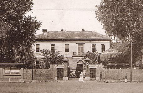 Heian-Nan(Pyeongannam) Provincial Office